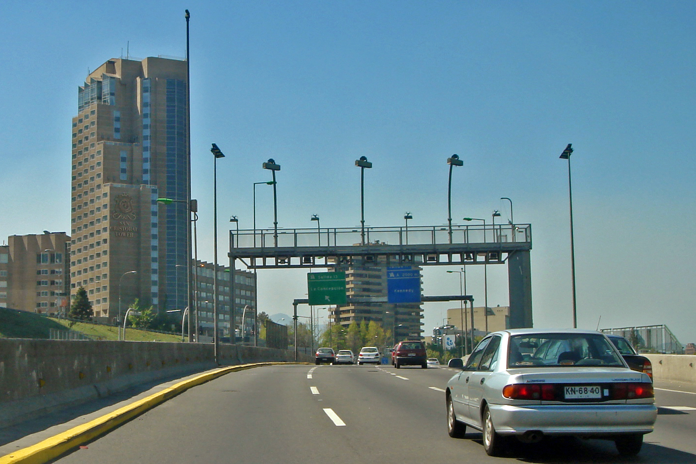 Electronic toll collection gantry at Costanera Norte. In the background at the left, the Sheraton San Cristobal Hotel & Towers. Santiago, Chile.